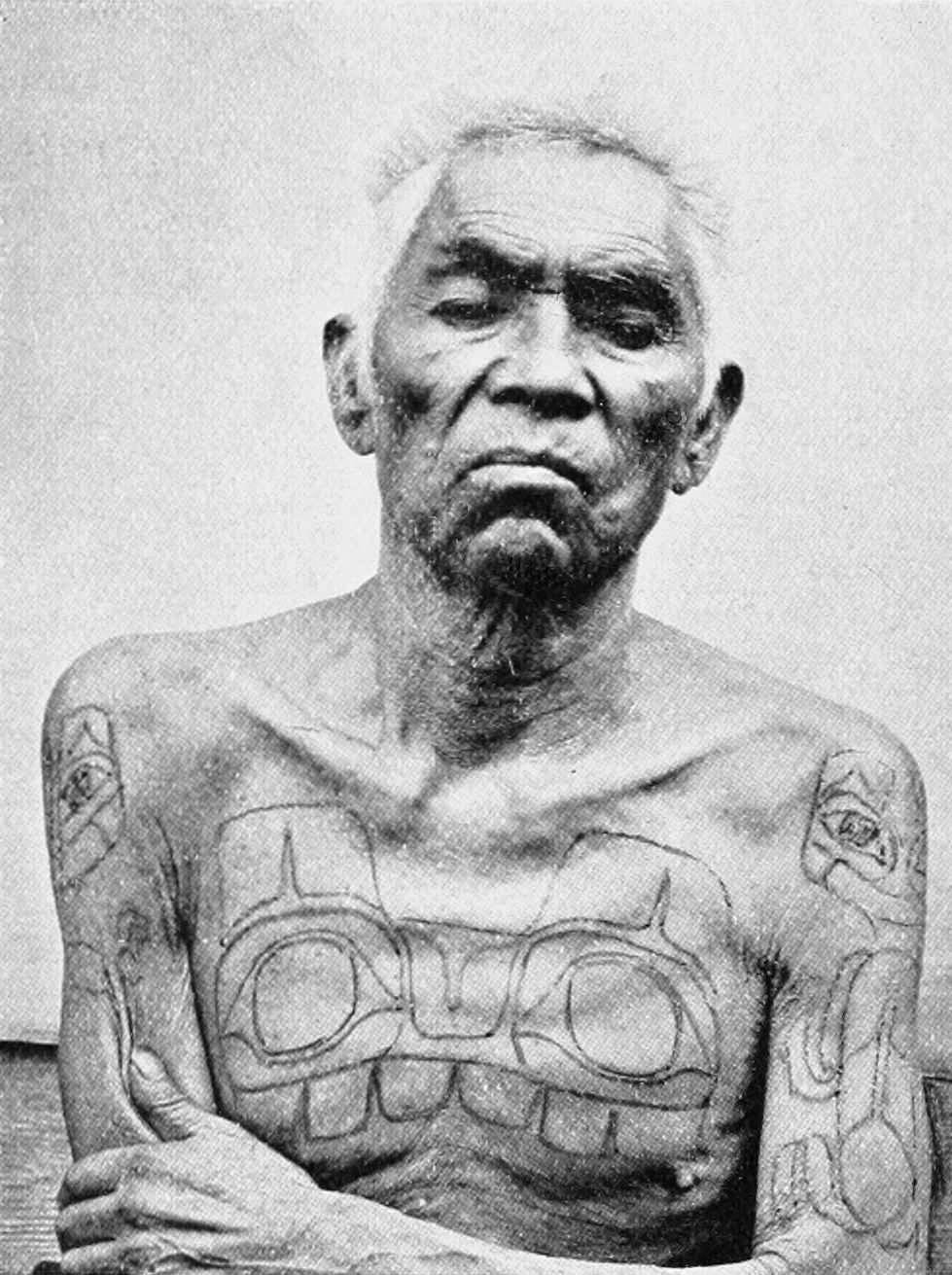 Tattooed Haida of Masset